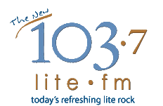 This is a logo owned by CBS Radio for KVIL.